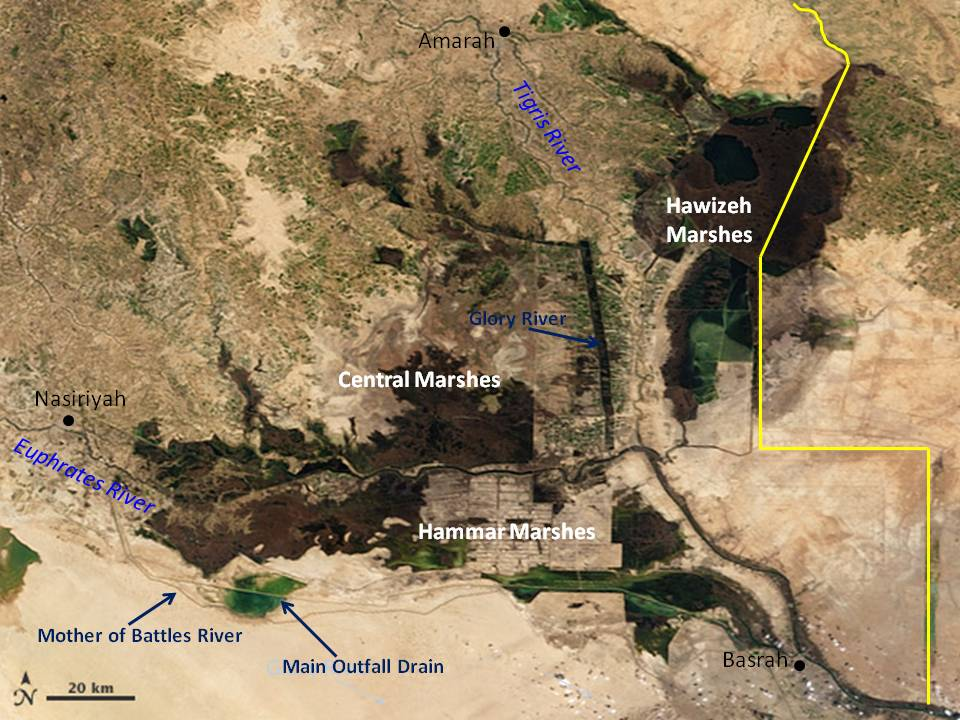 An overhead image of the Mesopotamian Marshes with annotated features.